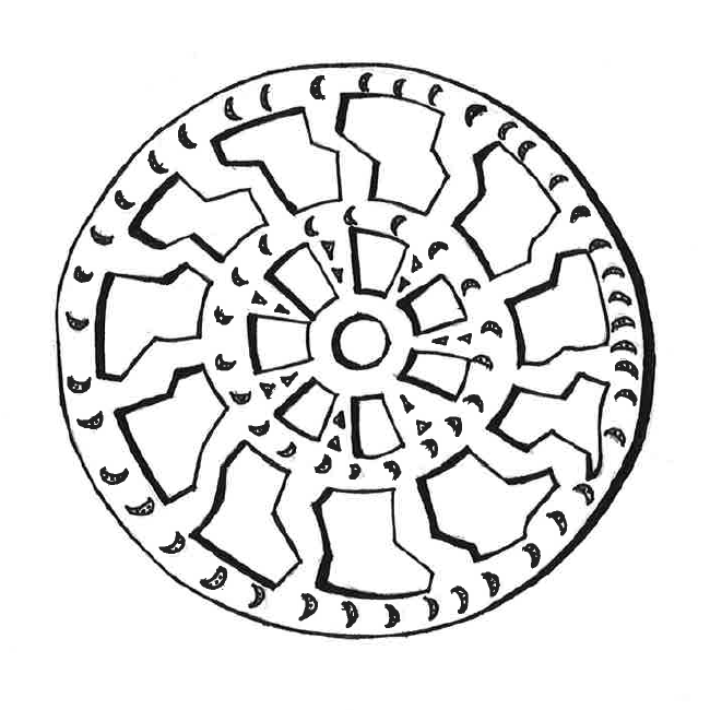 Sketch of an Alamannian fibula from the Merovingian period which shows a sun wheel.